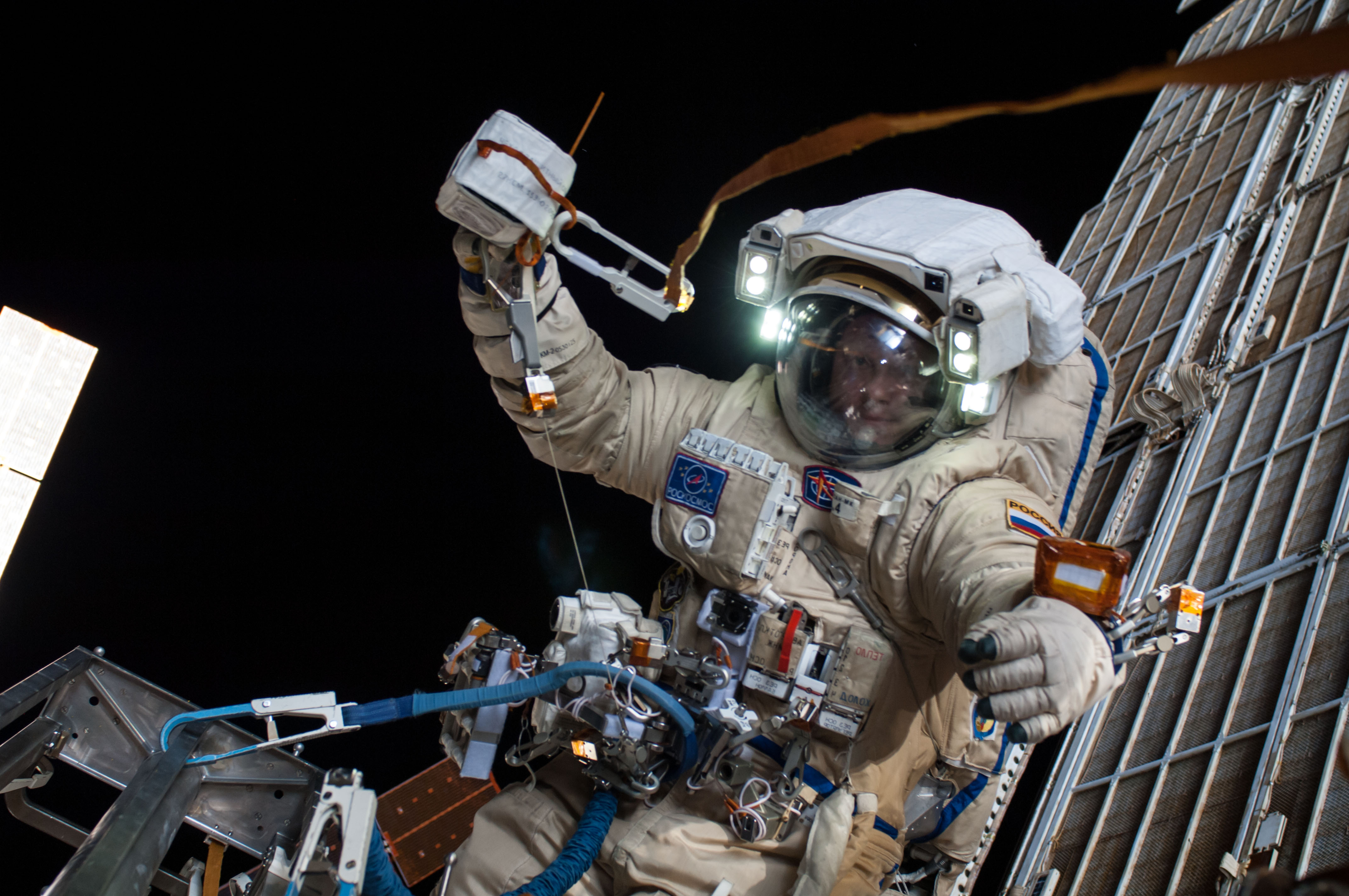 Russian cosmonaut Oleg Artemyev, Expedition 40 flight engineer, attired in a Russian Orlan spacesuit, participates in a session of extravehicular activity (EVA) in support of science and maintenance on the International Space Station. During the five-hour, 11-minute spacewalk, Artemyev and Alexander Skvortsov (out of frame) deployed a small science satellite, retrieved and installed experiment packages and inspected components on the exterior of the orbital laboratory.